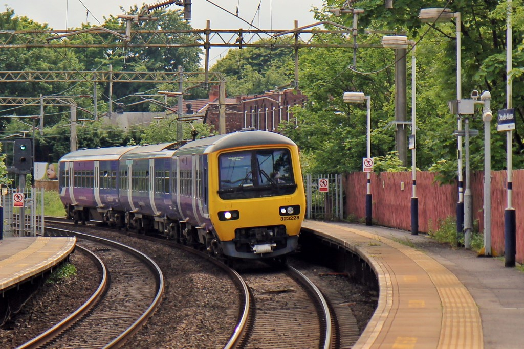 Northern Rail Class 323, 323228, platform 3, Cheadle Hulme railway station